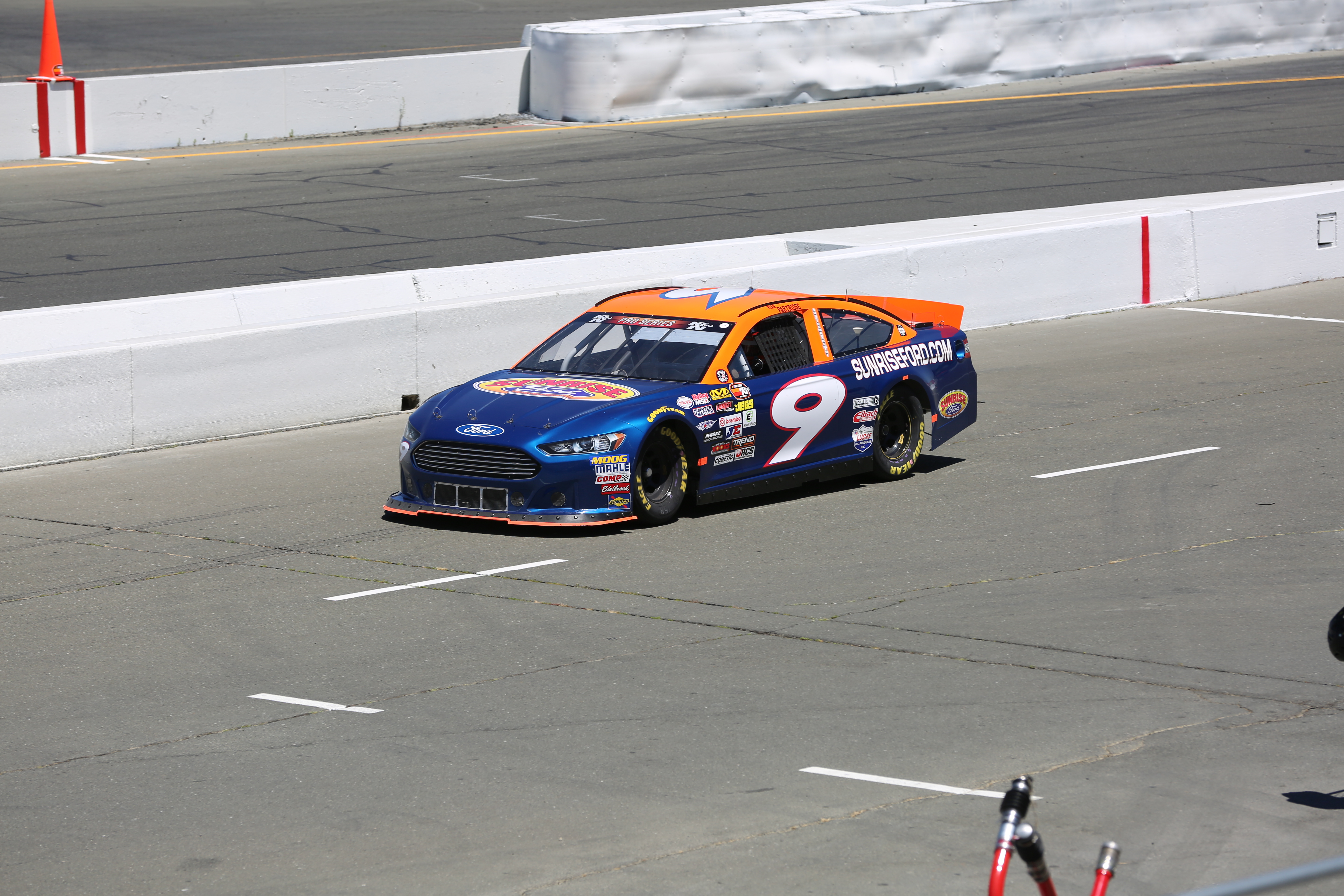 Ryan Partridge's No. 9 Sunrise Ford Dealers Ford at Sonoma Raceway in 2018